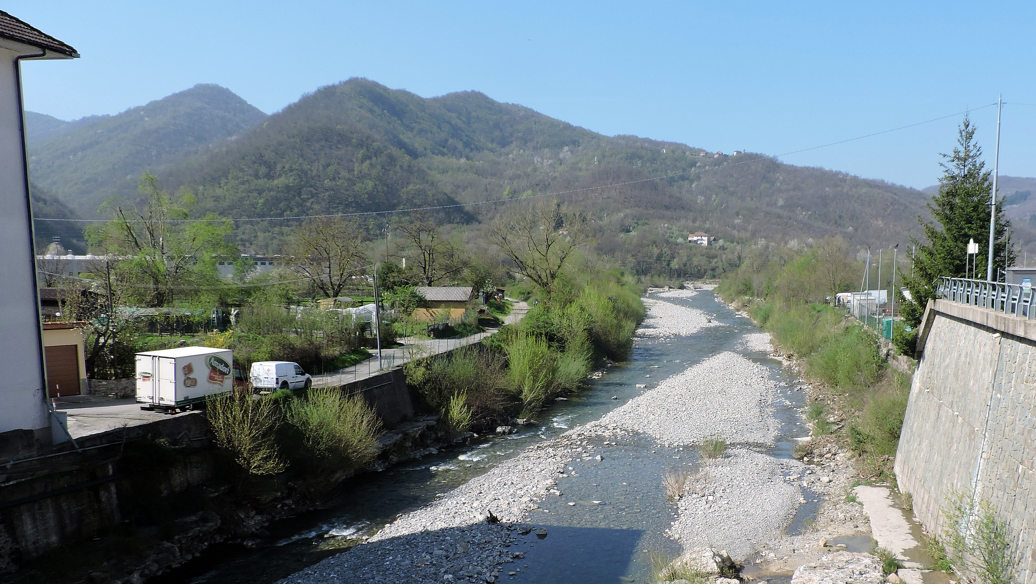 Brevenna (Ligurian Apennines) in Casella